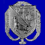 Falkland Islands Defence Force Cap Badge